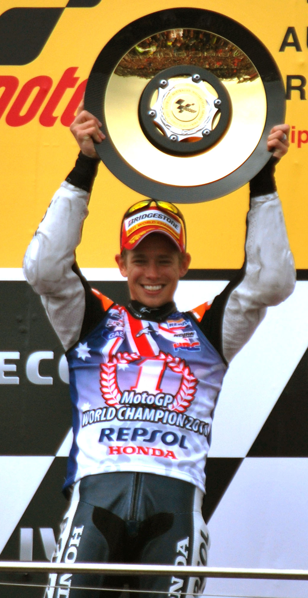 Casey Stoner, holding the trophy for first place at the Phillip Island MotoGP. - It was his fifth year in a row, - the win gave him his second world championship - it was his birthday. and I was there!